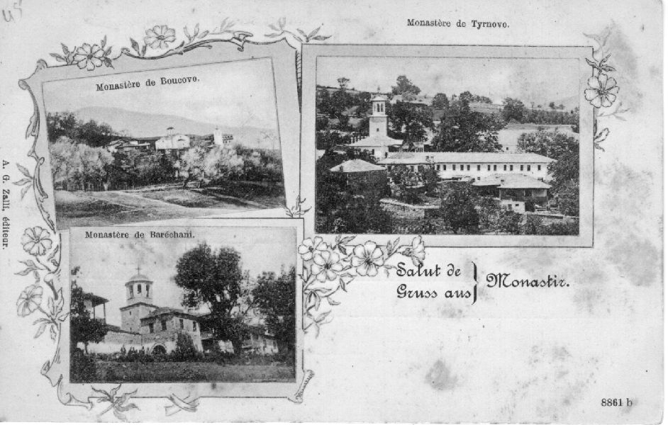 Postcard showing the Bukovo Monastery, Barešani Monastery, and Trnovo Monastery of Monastir, Ottoman Empire (modern day Bitola, North Macedonia)